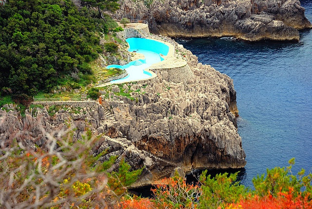 swimming pool in capri